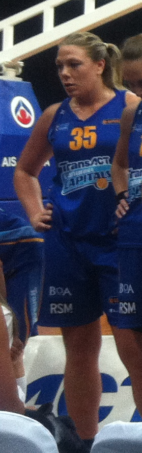 A picture of a Canberra Capitals player taken during the 2011/2012 season.